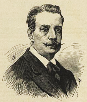 António de Melo César e Meneses, 3rd Marquess of Sabugosa.